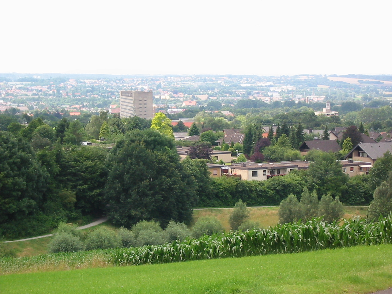 View on town of Herford, District of Herford, North Rhine-Westphalia, Germany.